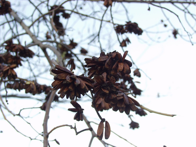 Fruit of Camptotheca acuminata, shot in Adler city, Russian Federation